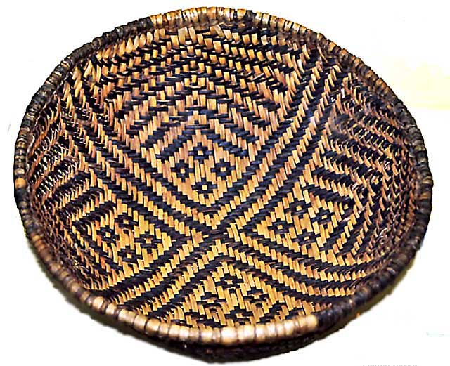 There is a whole group of Ancestral Pueblo people called the Basketmakers because of their superior basket making skills. The basket pictured, most likely dating from A.D. 450-750, shows the intricacy of woven patterns created by people in the Mesa Verde region as they began to transition from a hunter-gatherer to an agricultural lifestyle. Not only were baskets used for collecting seeds, nuts, fruits and berries, but they were sometimes coated with pitch on the inside, which allowed them to hold water and tolerate heat.